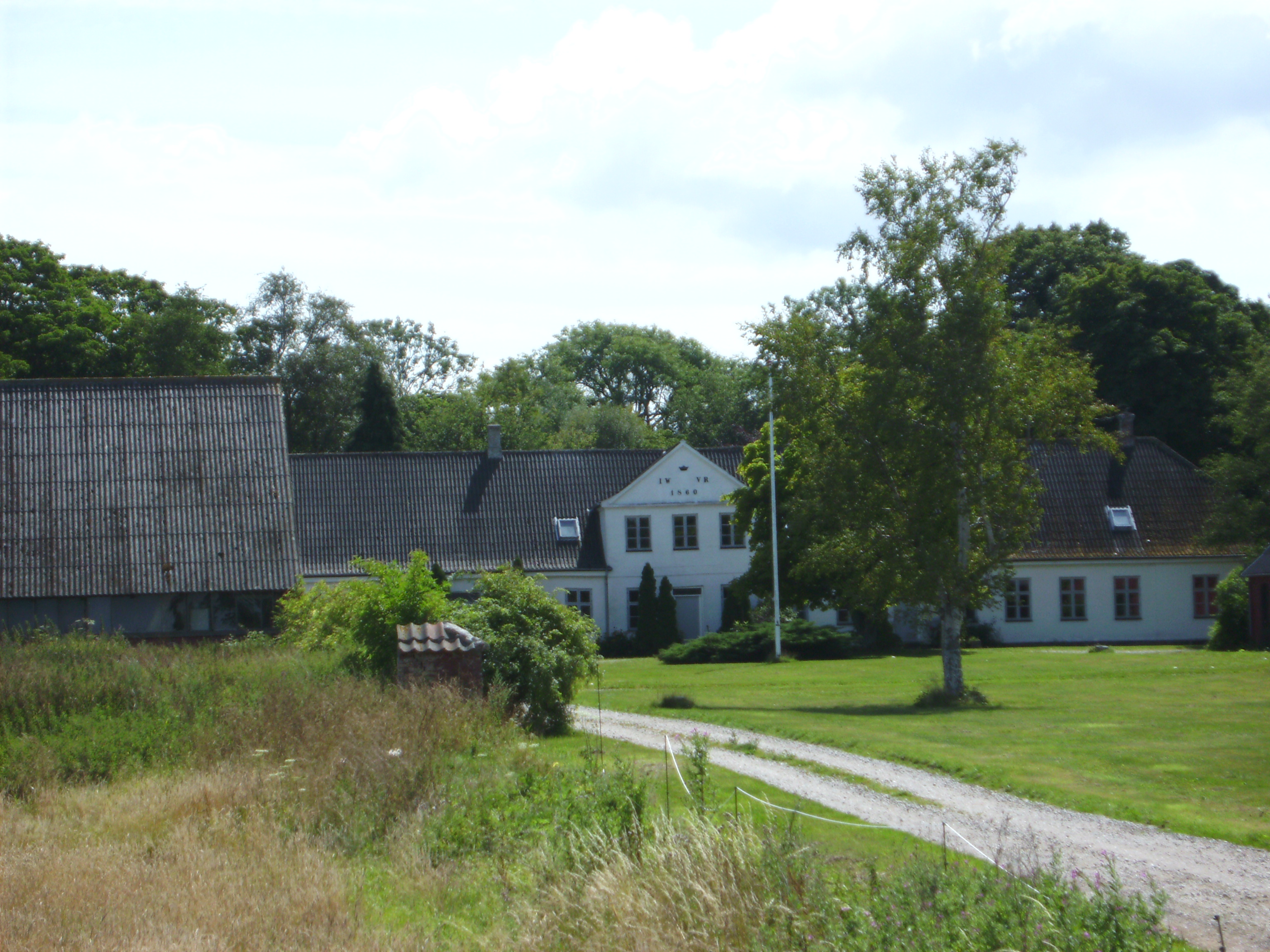 Ulriksdal (Godsted - Denmark)